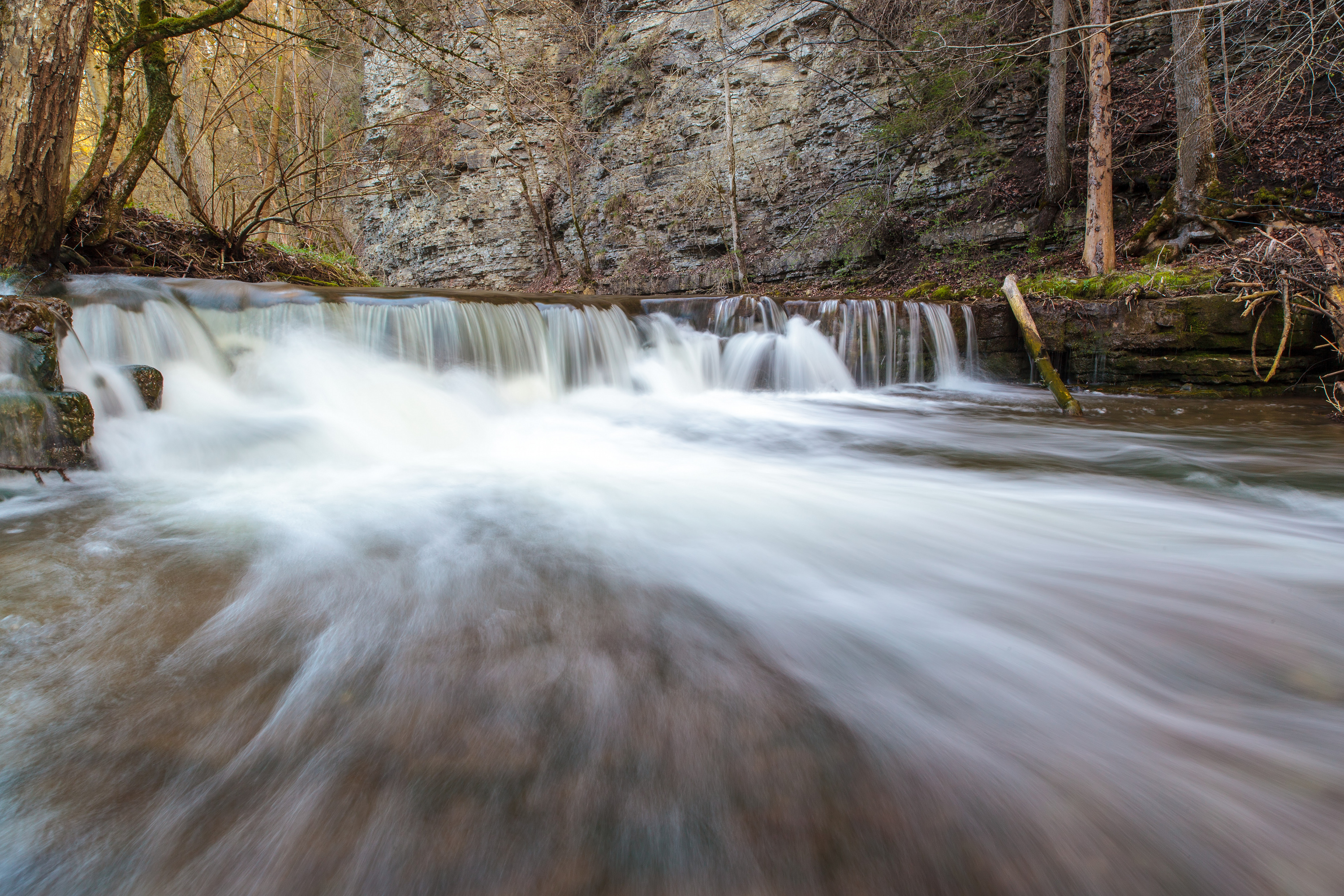 Schlichemklamm between Dietingen and Epfendorf